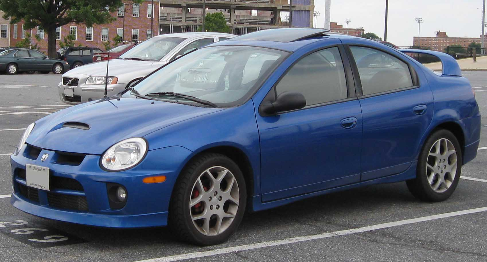 Dodge SRT-4 photographed in College Park, Maryland, USA.